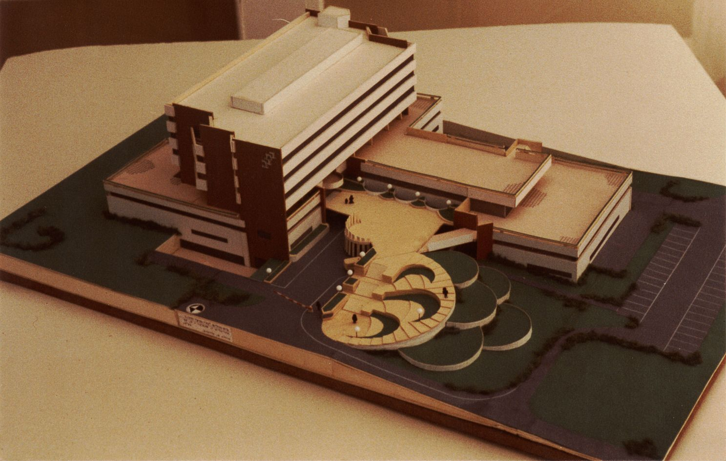 A cardboard model of Mayanei HaYeshua Medical Center, which was built in Bnei Brak, Israel.